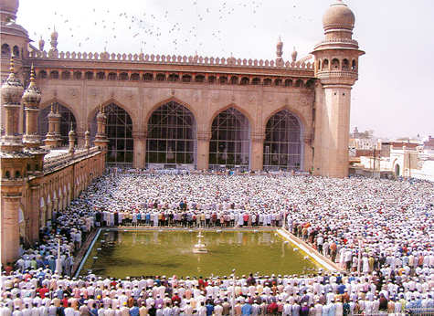 The Muslims of Hyderabad offering the last Friday prayers of the month of RamaDan at the Grand makkah Masjid.